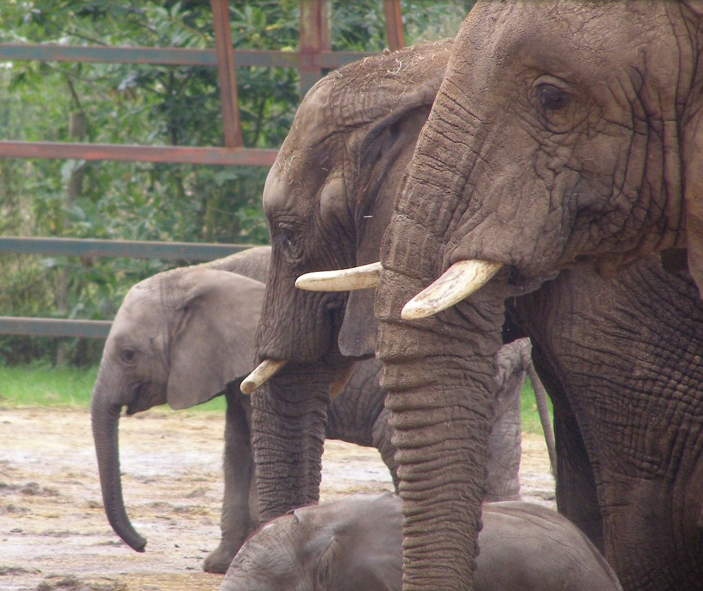 Loxodonta-african (African elephant) at Howletts Wild Animal Park, Kent, England